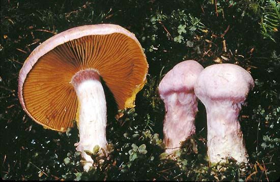 Cortinarius phoenicus.